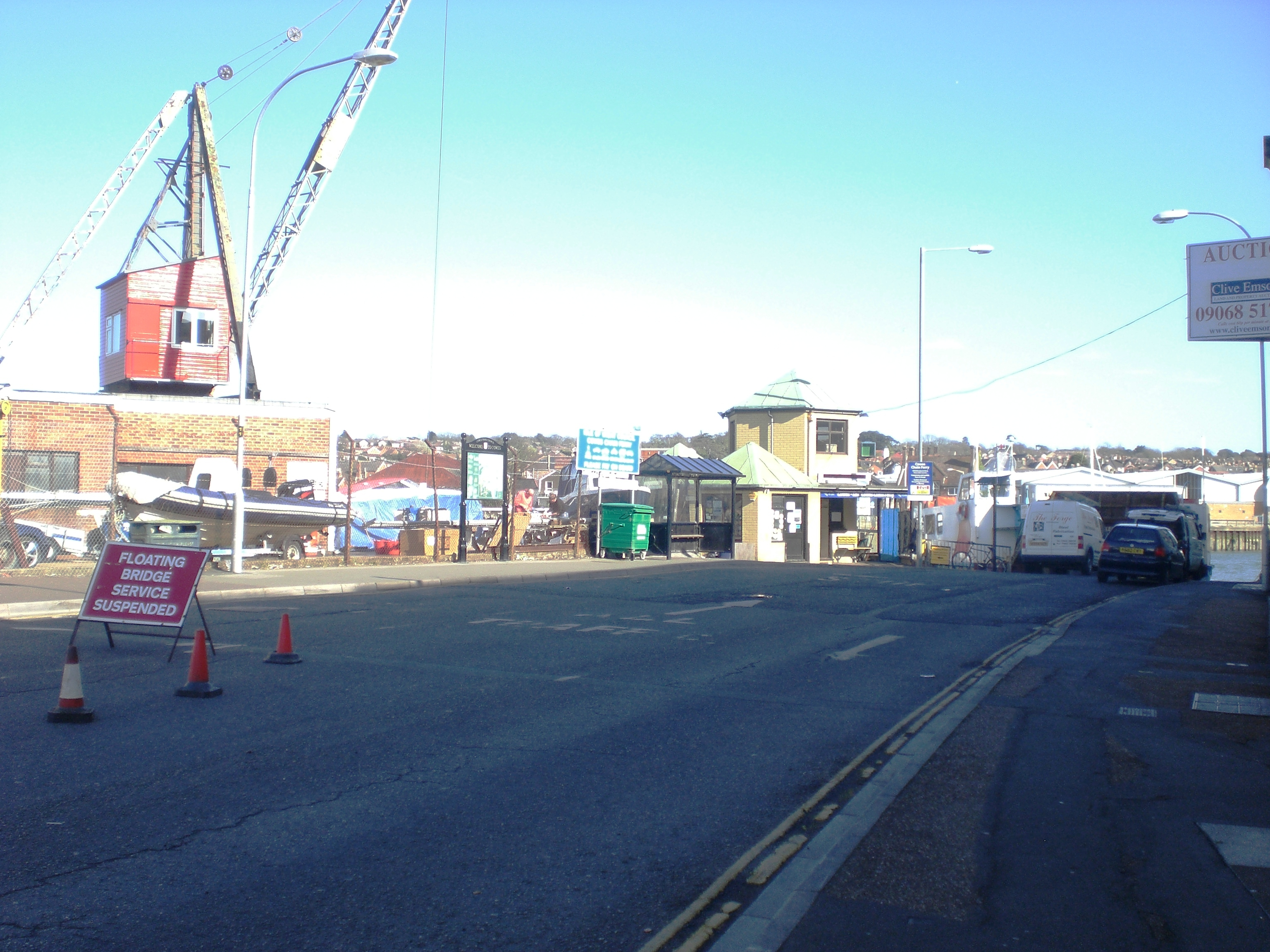 The Cowes Floating Bridge service suspended. This time for its annual refit in March-April 2009.